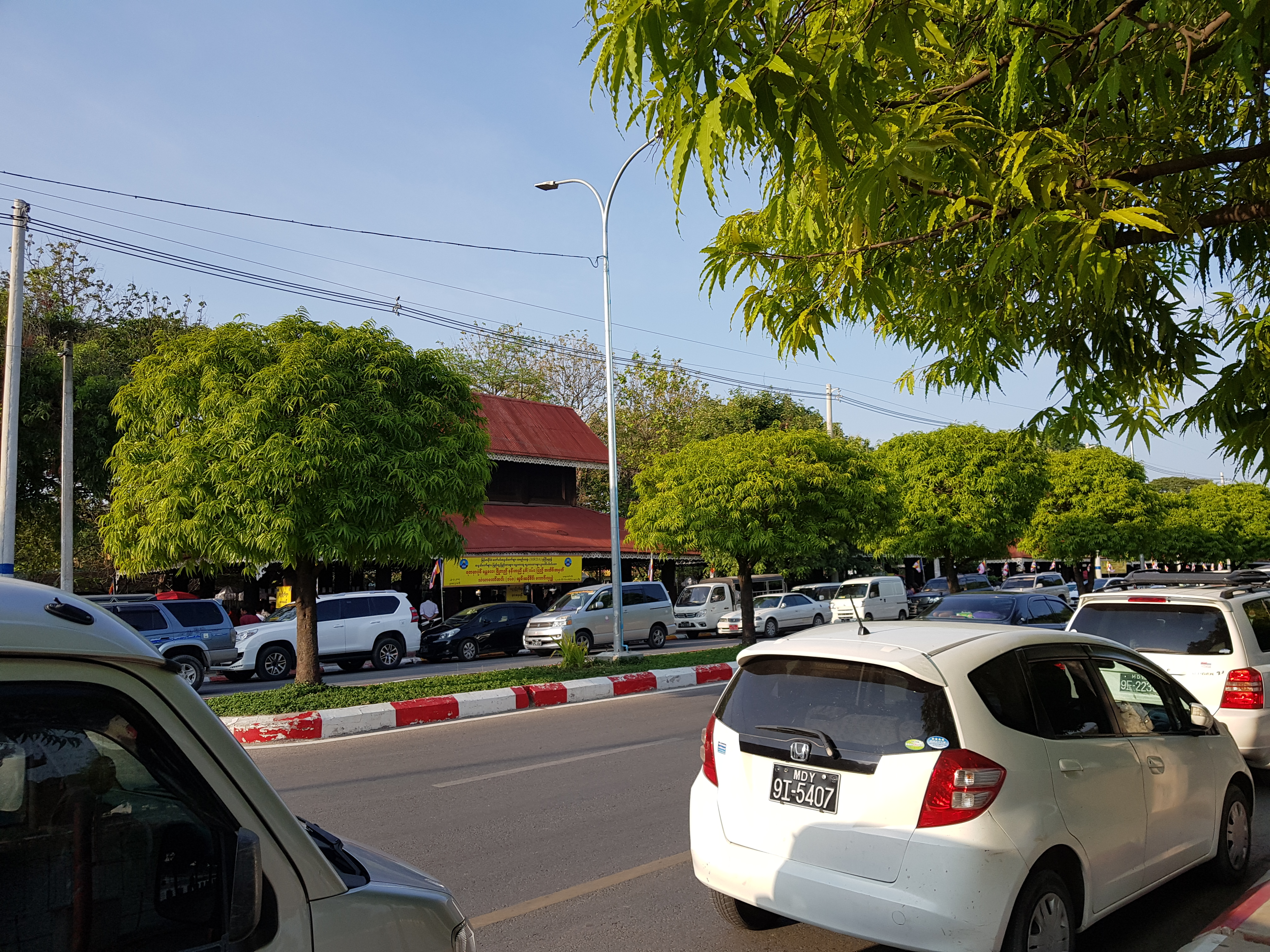 Celebration of 160th Anniversary of Mandalay in Thudama Zayat. မြန်မာဘာသာ: မန္တ​လေး​တောင်​​ခြေရှိ သုဓမ္မာဇရပ်များတွင် မြို့တည်နန်းတည် နှစ်၁၆၀ပြည့်အထိမ်းအမှတ် ဆွမ်းဆန်စိမ်း​လောင်းလှူပွဲ ကျင်းပ​နေစဉ်